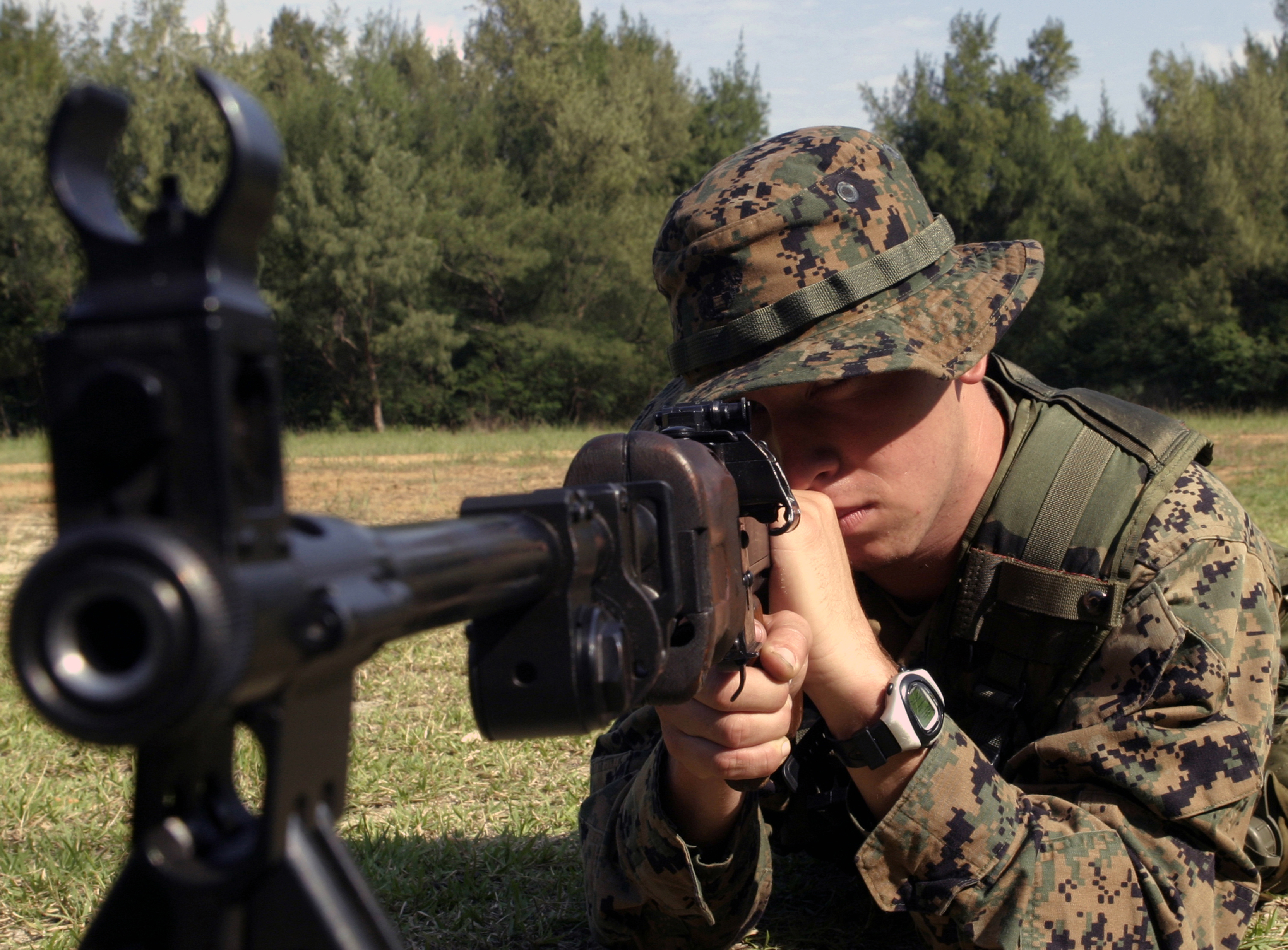 Summary Corporal Markus P. Czirban sights in with a Degtyarev RPD Nov. 14 during the weapons of opportunity familiarization training at Kin Blue. Czirban was among 59 Marines and sailors with Headquarters and Service Company, Headquarters Battalion, 3rd Marine Division, who spent a week in the field learning about Soviet weapons and combat life saving techniques. Czirban is a supply administration and operations clerk. Photo by: Lance Corporal Warren Peace Photo ID: 20051129201427 Submitting Unit: MCB Camp Butler Photo Date:11/18/2005